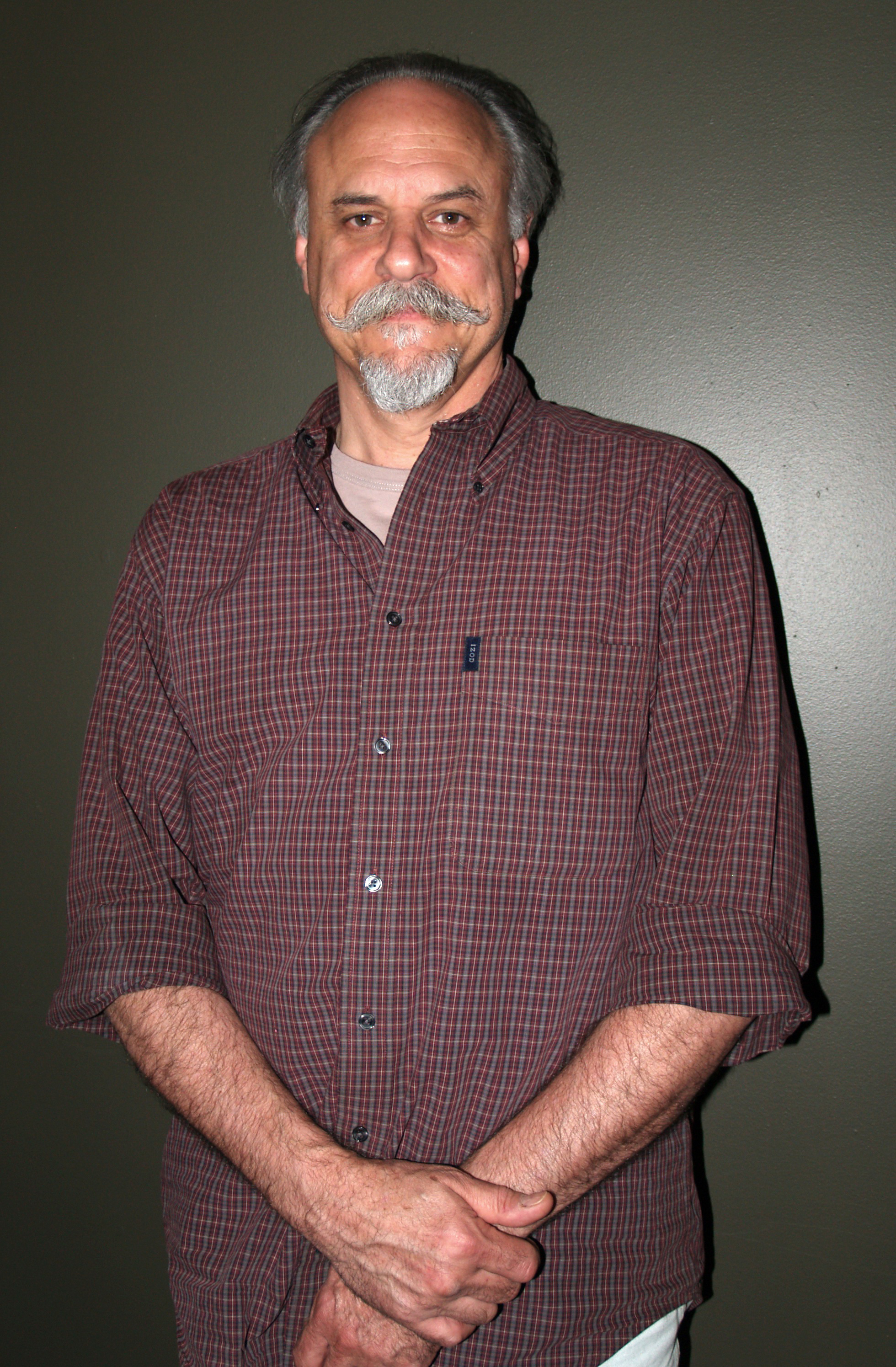 American animator J.J. Sedelmaier during a September 16, 2013 history of computer animation lecture and book signing featuring animator Tom Sito at the SVA Theatre, which is part of Sito's alma mater, the School of Visual Arts in Manhattan. This photo was created by Luigi Novi. It is not in the public domain, and use of this file outside of the licensing terms is a copyright violation.